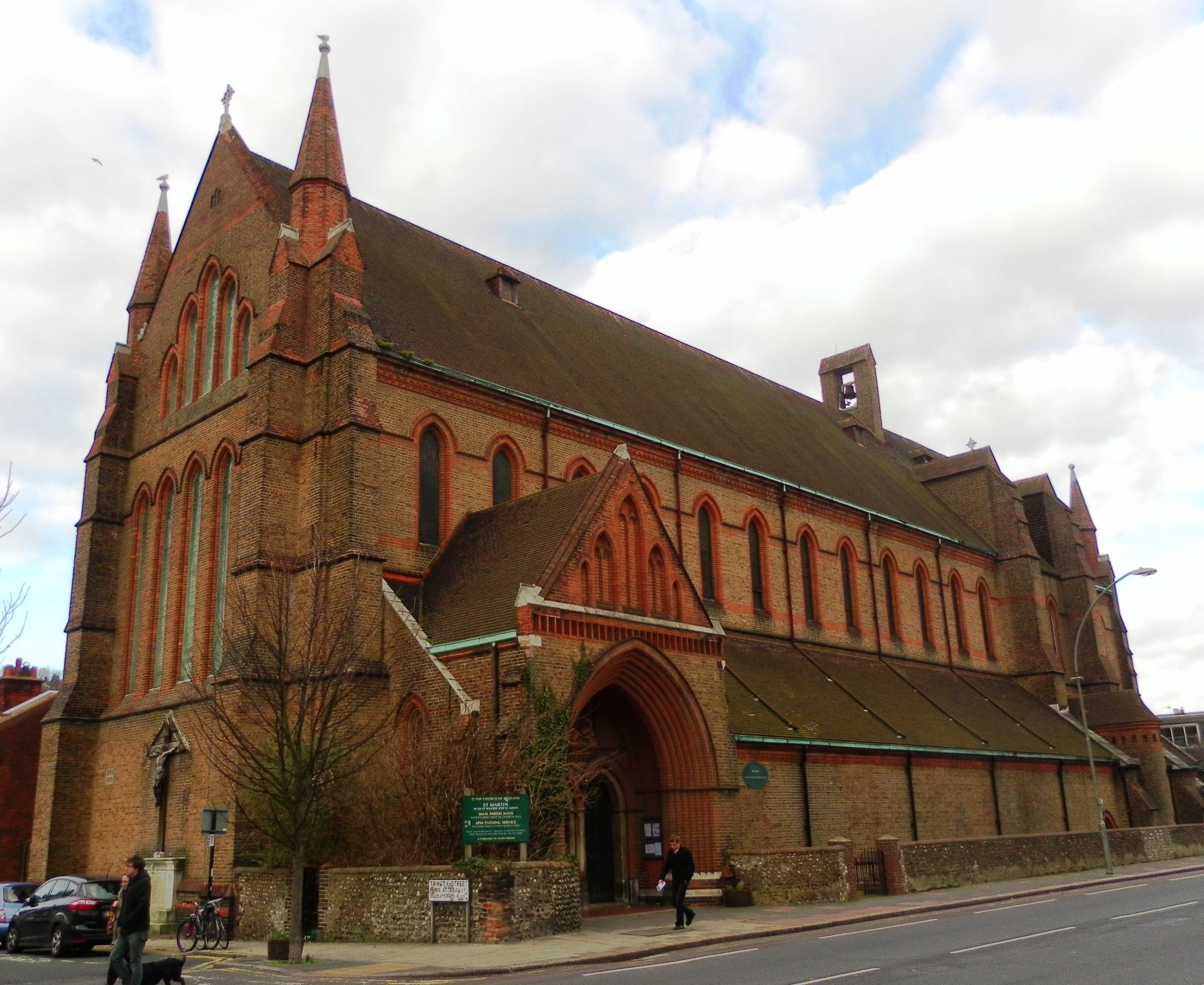 St Martin's Church, Lewes Road, Hove, City of Brighton and Hove, England. Listed at Grade II* by English Heritage (IoE Code 365637)